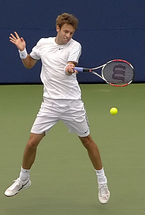 Daniel Nestor playing with Nenad Zimonjic against Lukas Dlouhy & Leander Paes at the 2008 Rogers Cup